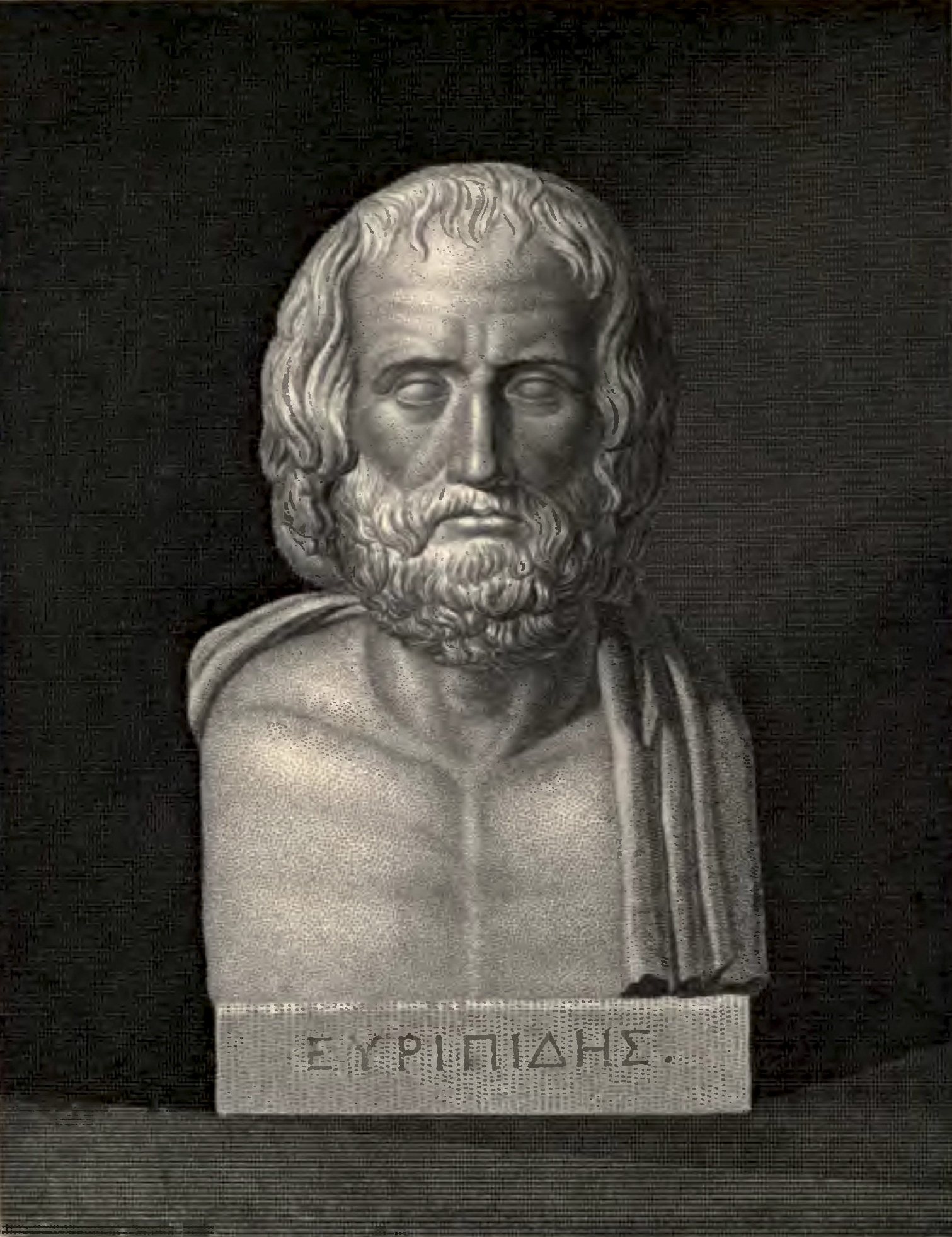 Bust of Euripides; frontispiece for The Plays of Euripides (1910)